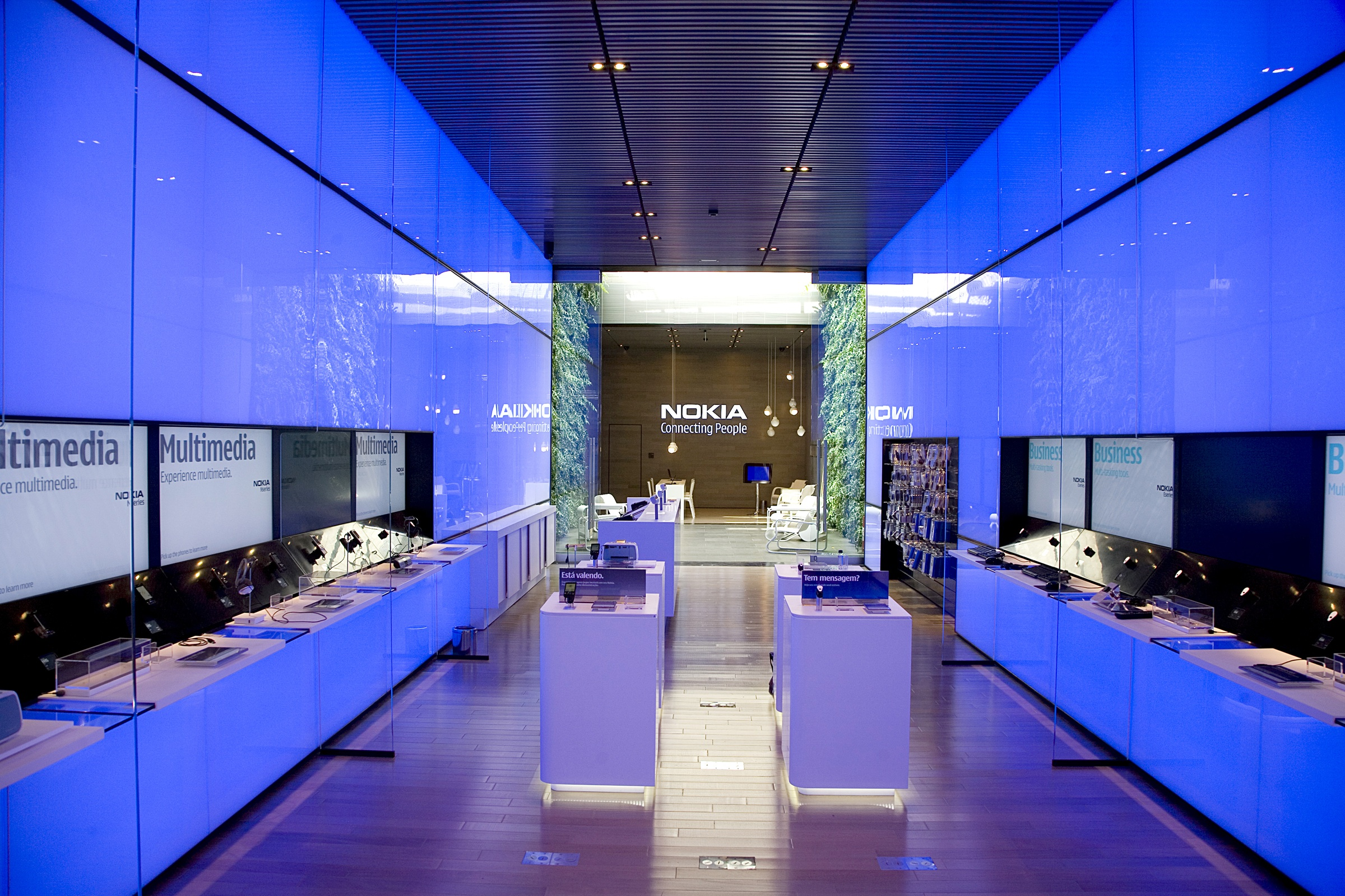 Nokia Flagship Store, Sao Paulo, Brazil. Designed by Eight Inc.